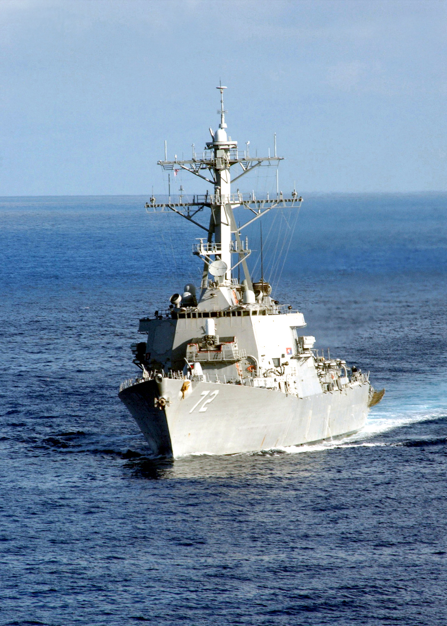 At sea with USS Mahan (DDG-72) Sep. 27, 2002 — The guided missile destroyer steams behind the George Washington during a regularly scheduled deployment in support of Operation Enduring Freedom. The Washington is participating in exercise “Mediterranean Shark” during a regularly scheduled deployment in support of Operation Enduring Freedom. The exercise is a bilateral training exercise conducted in Morocco by a U.S. Marine Expeditionary Unit (MEU), Special Operations Capable (SOC), to show the effectiveness of the Marine Air Ground Task Force (MAGTF). The MAGTF allows commands to task organized surface and air assets for use in meeting specific ends.